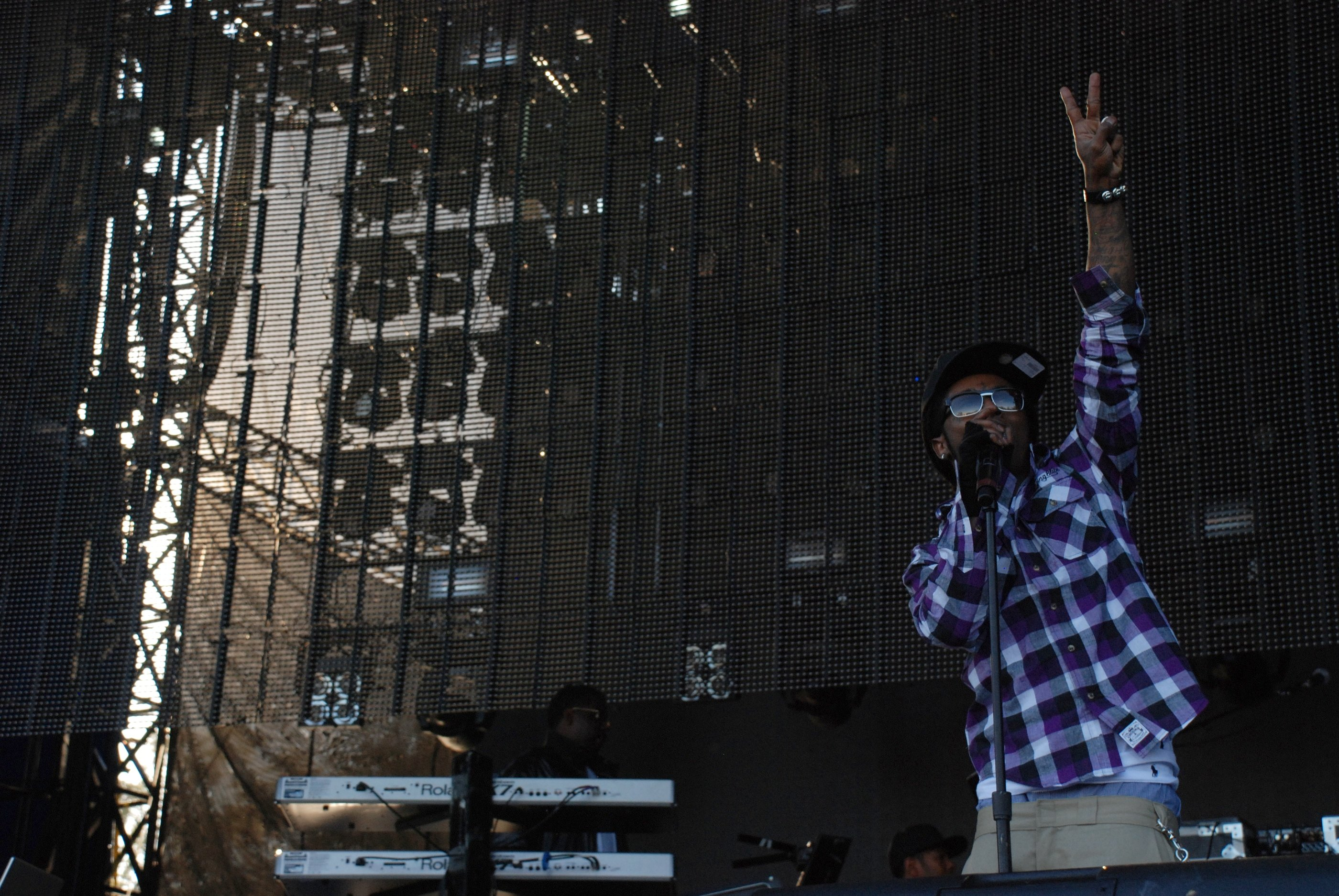 Lil' Wayne at Voodoo Music Experience.